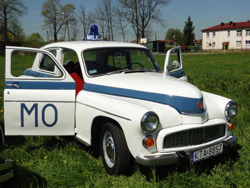 FSO Warszawa, militia type. Took in Filipowice, Poland.